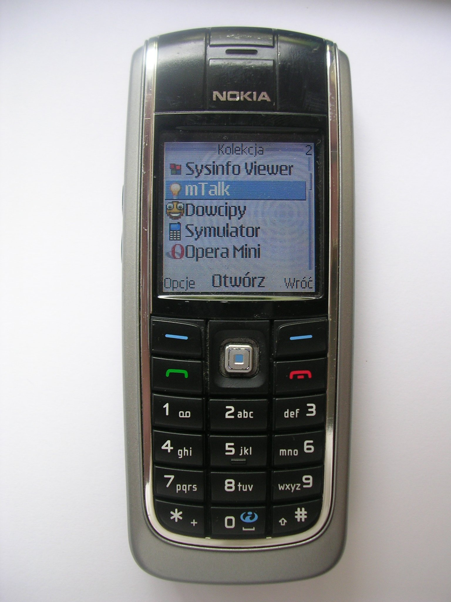 mTalk - Jabber client running on Nokia 6021